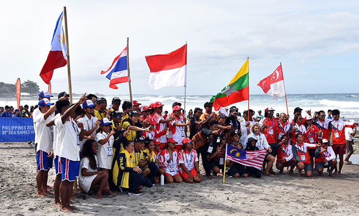 Surfing athletes for the 30th SEA Games pose for a photo opportunity during the formal opening of the tournament at the beach shores of Barangay Urbiztondo, San Juan, La Union on Monday. (Photo by FGL, PIA 1)